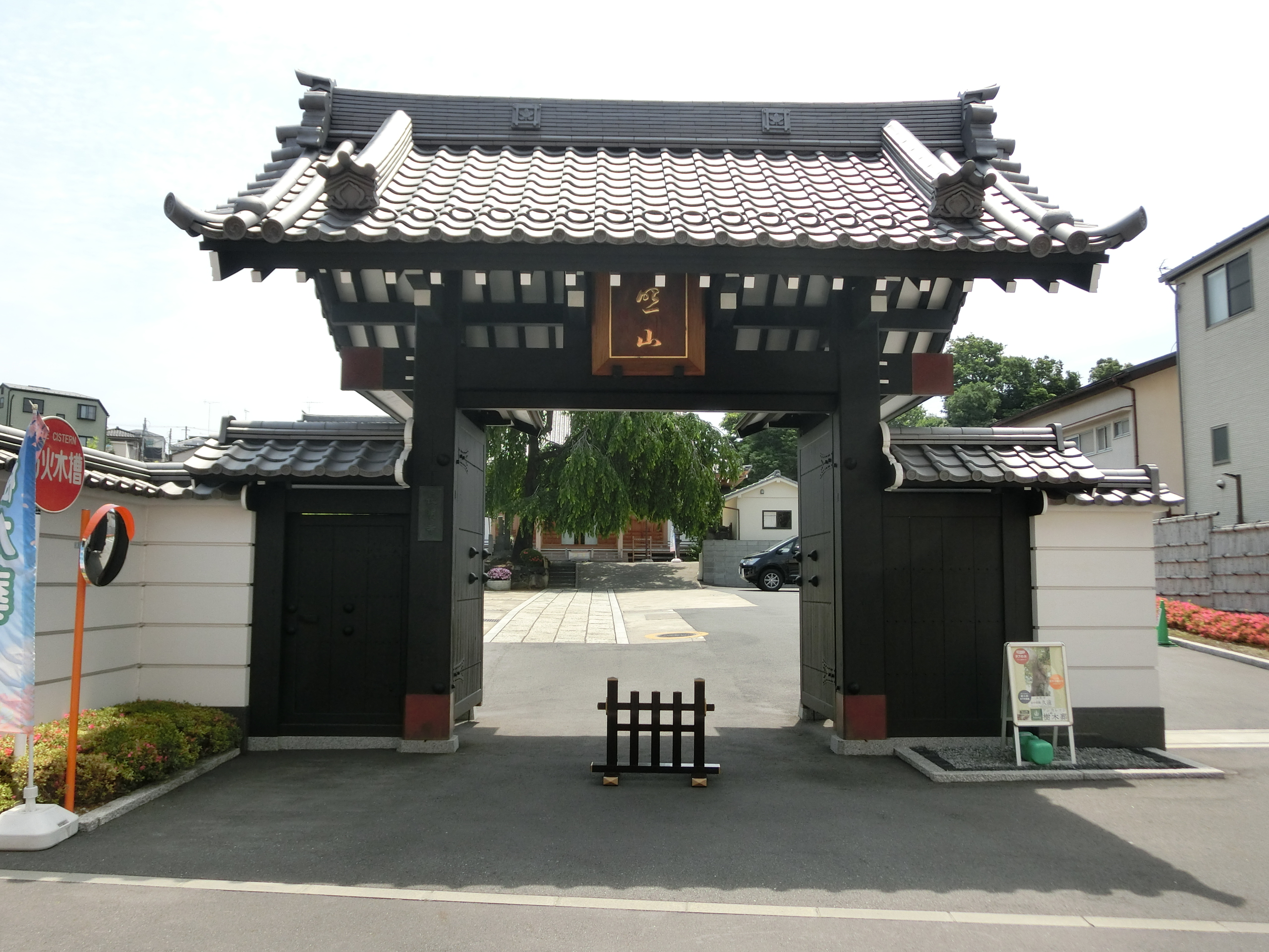 Chomyo-ji (Taito)